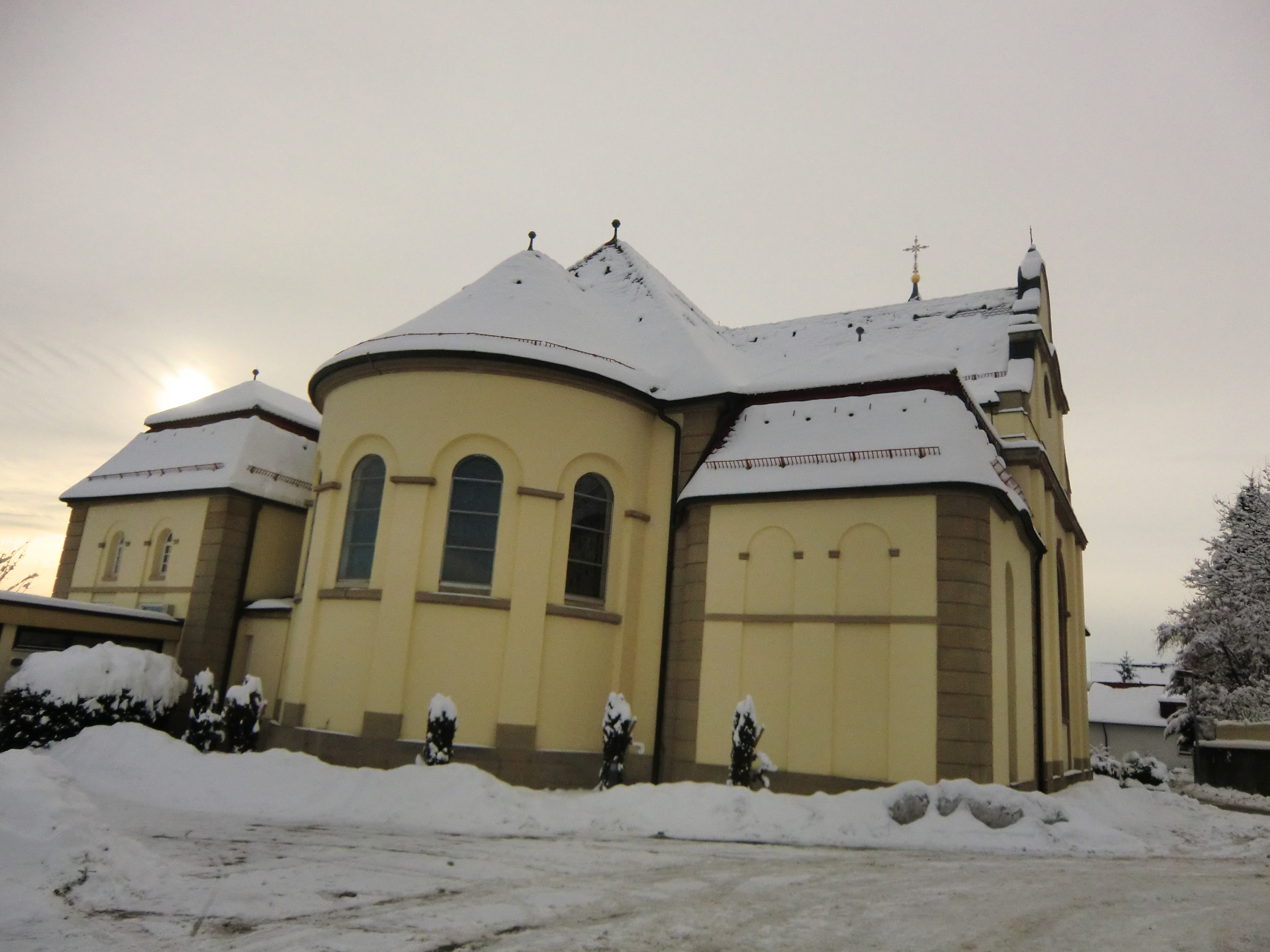 The St. Cyriakus church viewed from the eastern side.